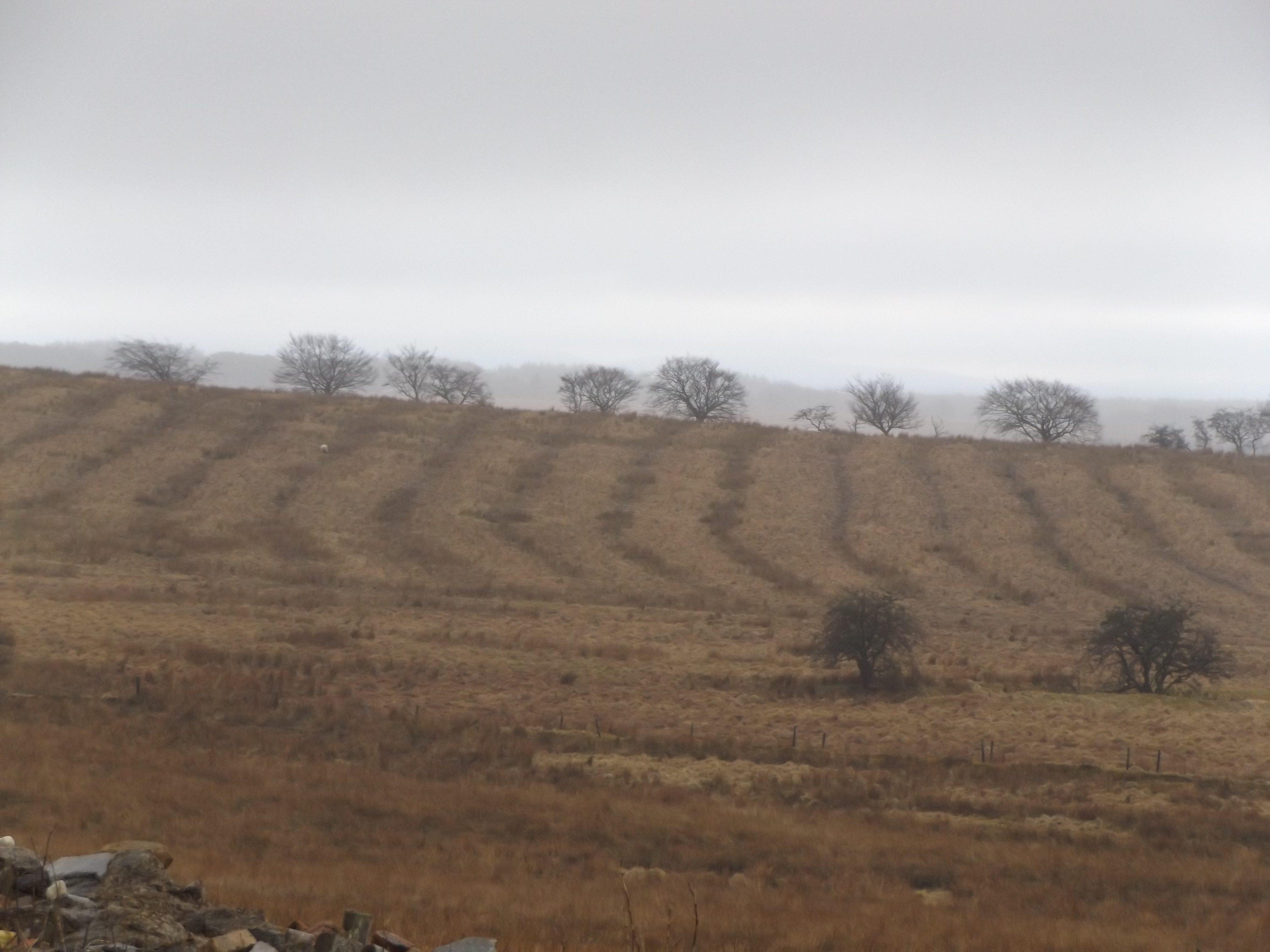 An example of rig and furrow. This image is from the area around rough rig reservoir near Airdrie Scotland. Here you will find some of the best examples in the UK.